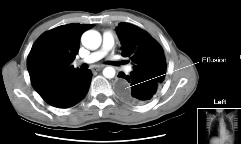 CT scan of chest showing loculated pleural effusion in left side. Some thickening of pleura is also noted. From my personal collection. Permission obtained from patient.